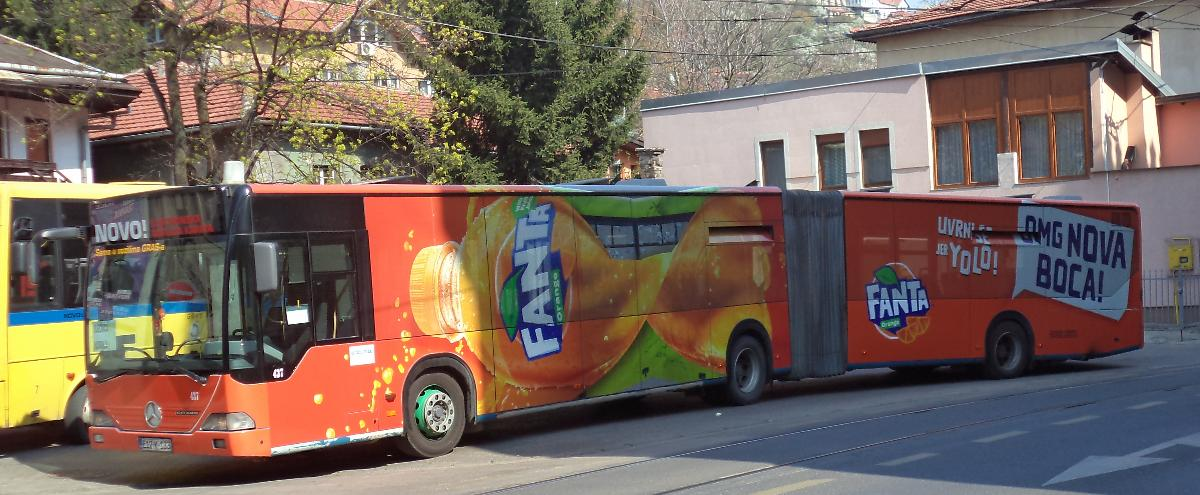 Citaro on the line 31e